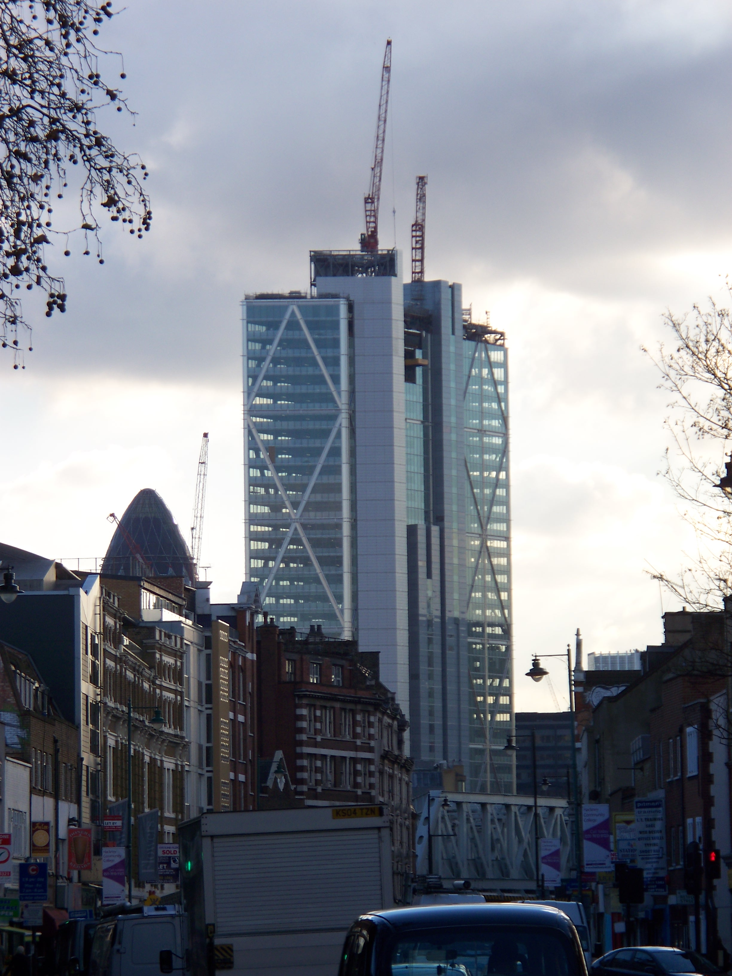 Broadgate Tower, London, under construction